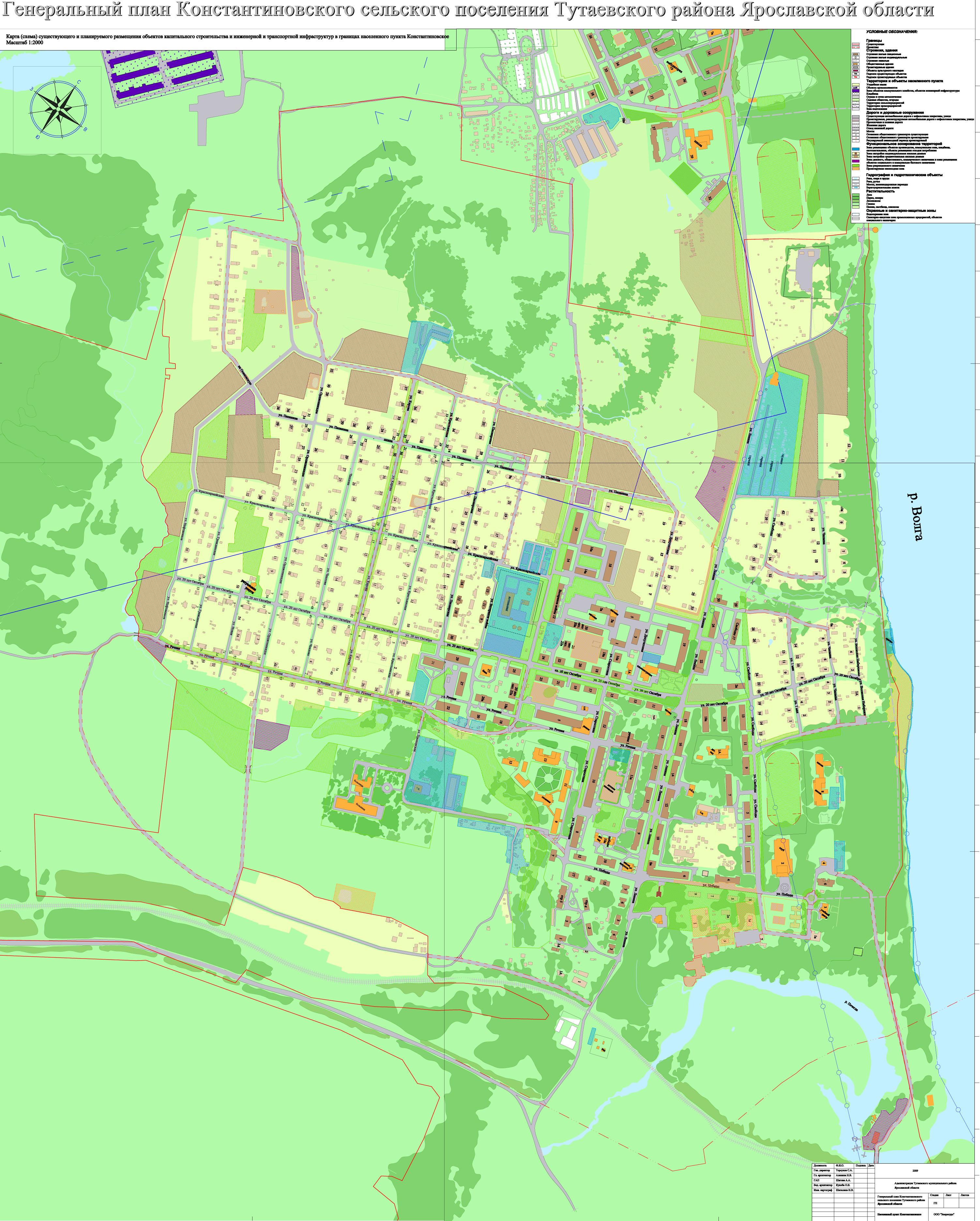 General plan of Konstantinovskoe rural settlement (Yaroslavl Oblast) 2009. Konstantinovsky.